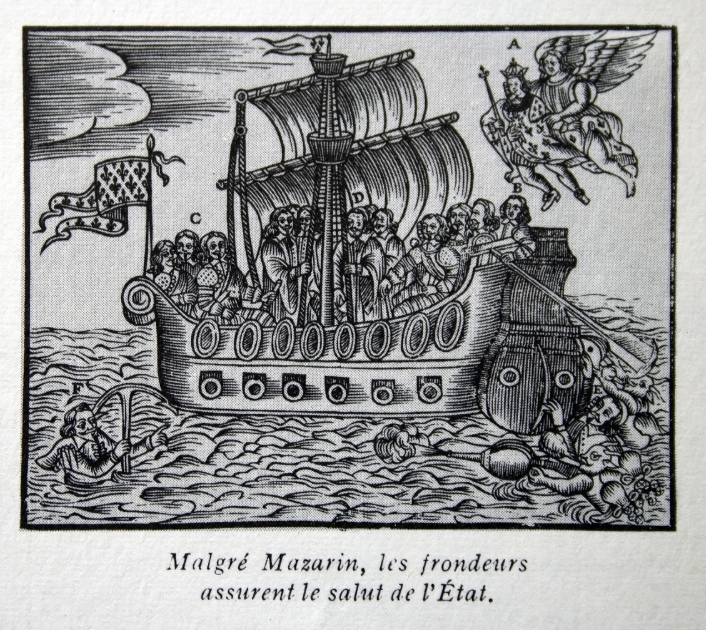 Mazarinade - Printed propaganda material from the time of the Fronde